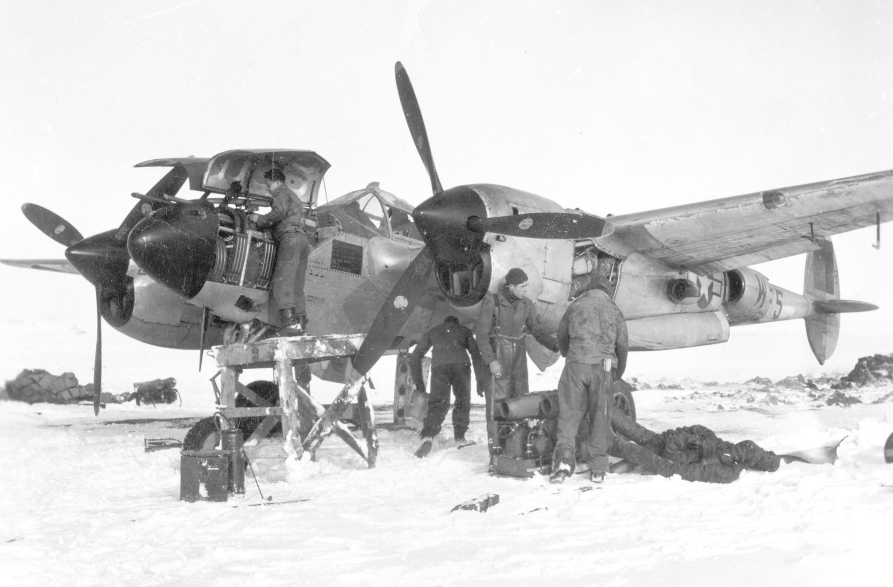 Rough field operations caused difficult working conditions for 9th Air Force maintenance personnel. Here a crew prepares to use an external heater to warm a P-38’s frozen engine so it can be started while an armorer works on the guns in the nose while atop a makeshift stand. (U.S. Air Force photo))